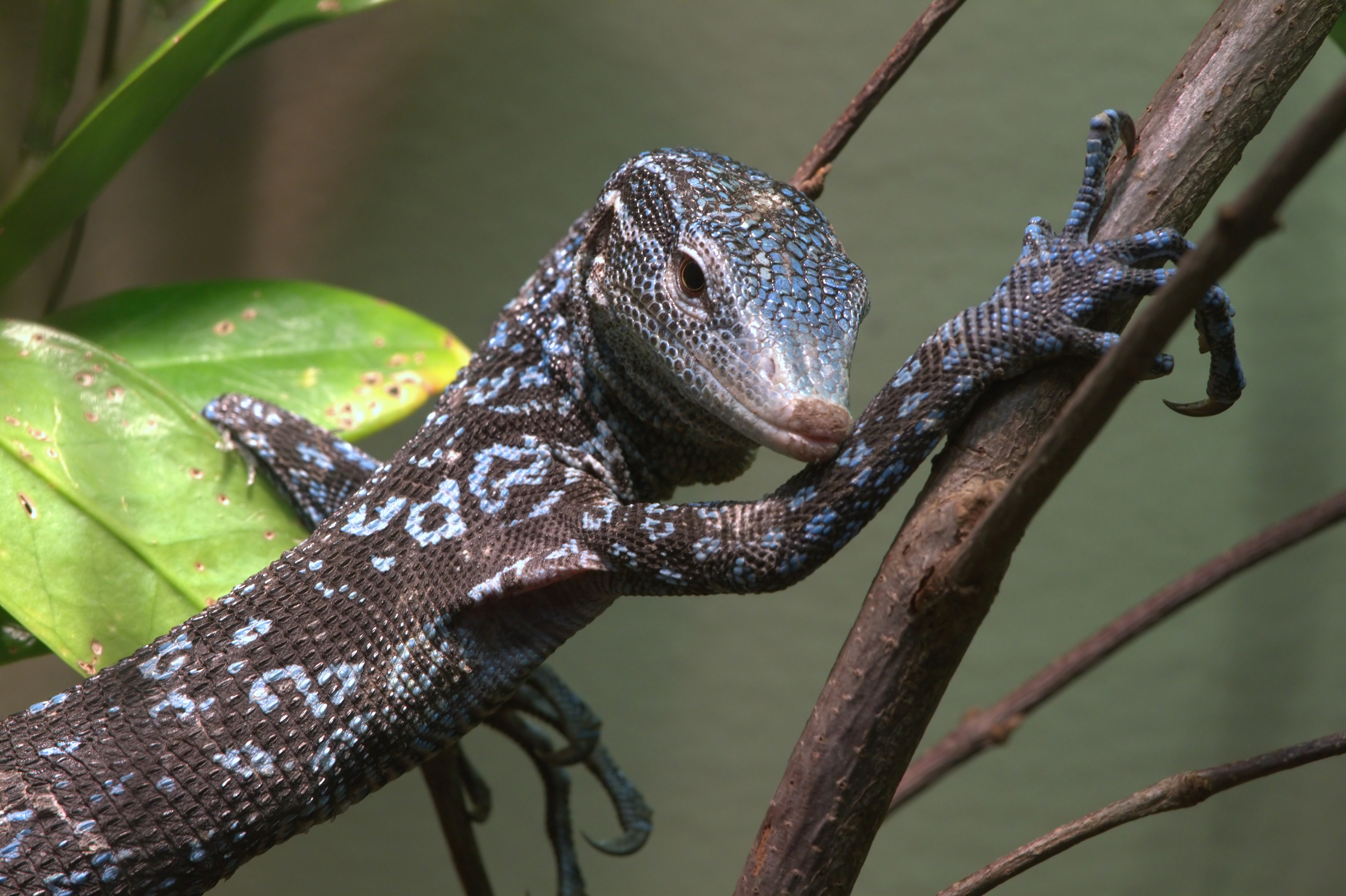 Blue tree monitor taken at the Cincinnati Zoo